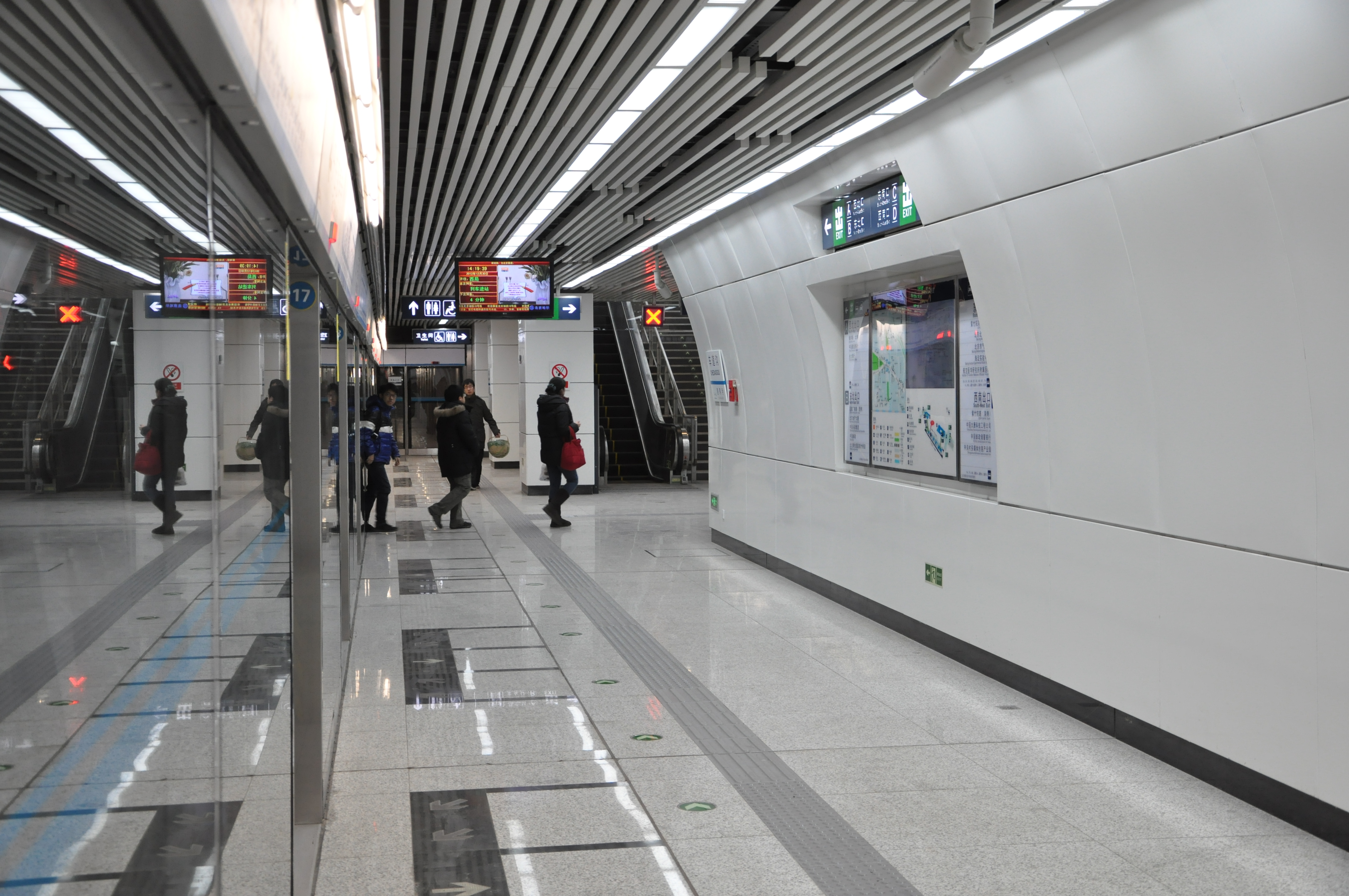 Platform of Chedaogou station, Line 10, Beijing Subway.